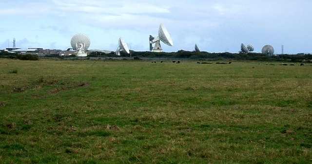 Goonhilly Earth Station. Numerous satellite dishes dot the landscape forming the Goonhilly Earth Station. Taken from about a kilometre away looking across fields with cows lying down.